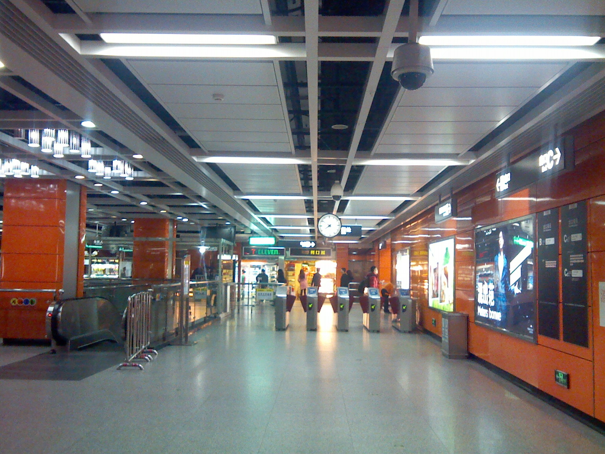 车站站厅厅